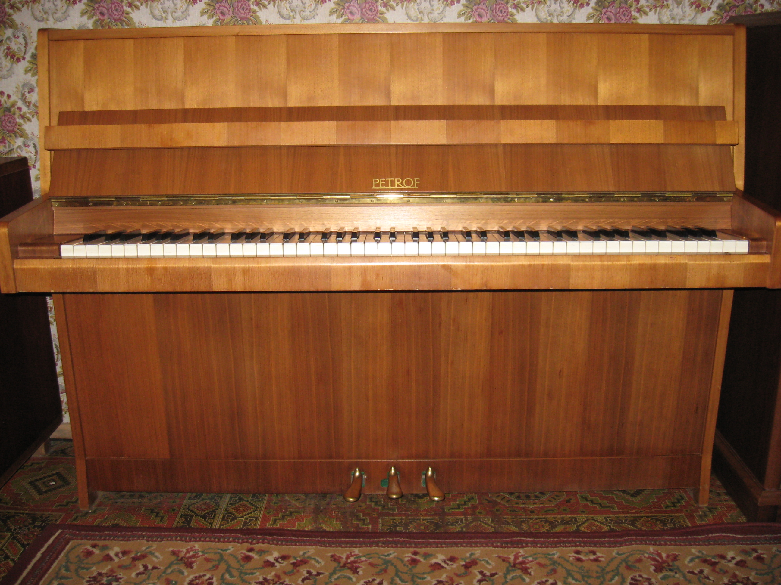 Petrof Sonatina 100. Upright piano made in Czech Republic from 18.05.1988. Satin.